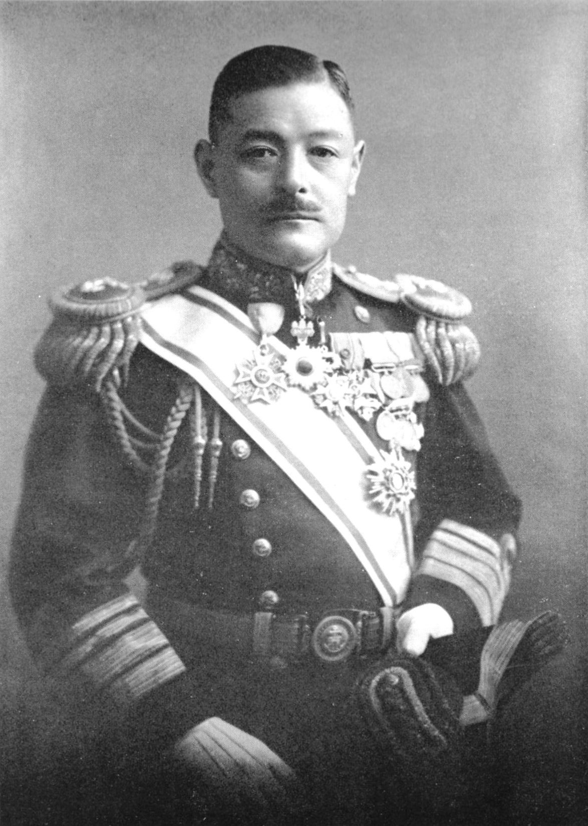 Ken Terajima is an Imperial Japanese Navy Vice Addmiral